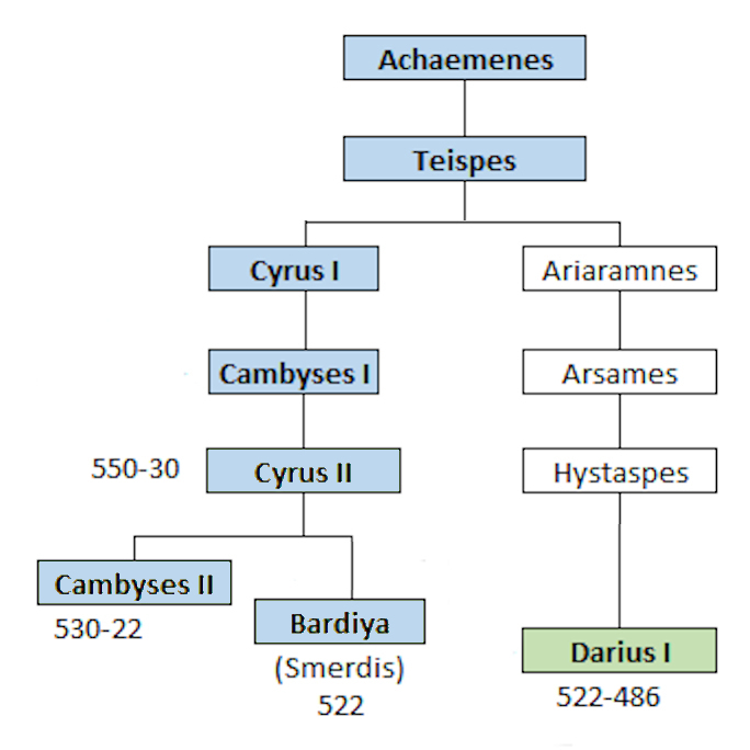 Full Achaemenid lineageLineage of Darius the Great